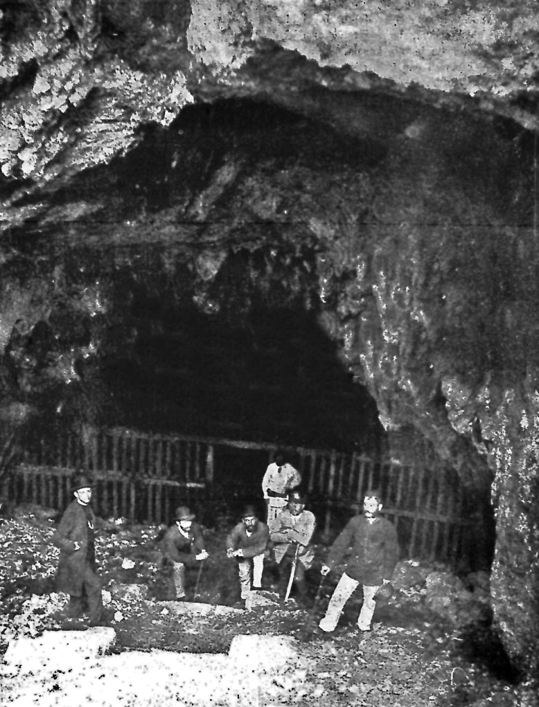 First photo of a cave in Croatia, cave Samograd in Cave Park Grabovača (1897?)